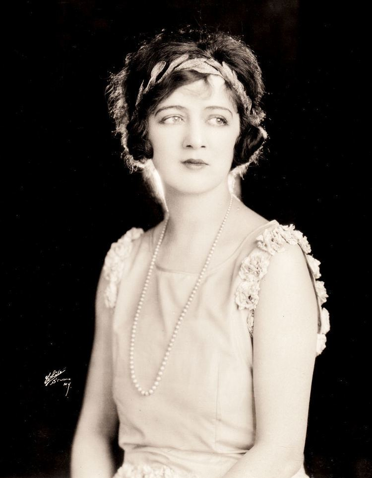 Portrait of American actress Alma Tell (1898–1937) by American photographer Luther S. White (1857-1936). White Studios, NY. 1546 Broadway, Manhattan.